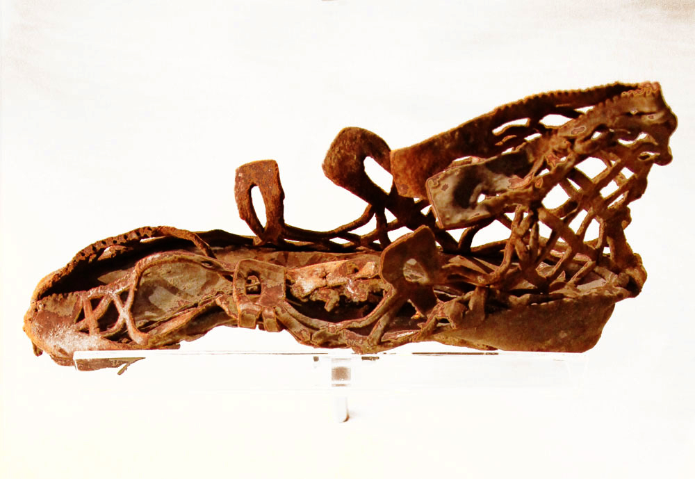 One of many examples of footwear found and conserved from Vindolanda, a Roman auxiliary fort In NE England just south of Hadrian's Wall. On display at the Vindolanda Museum.